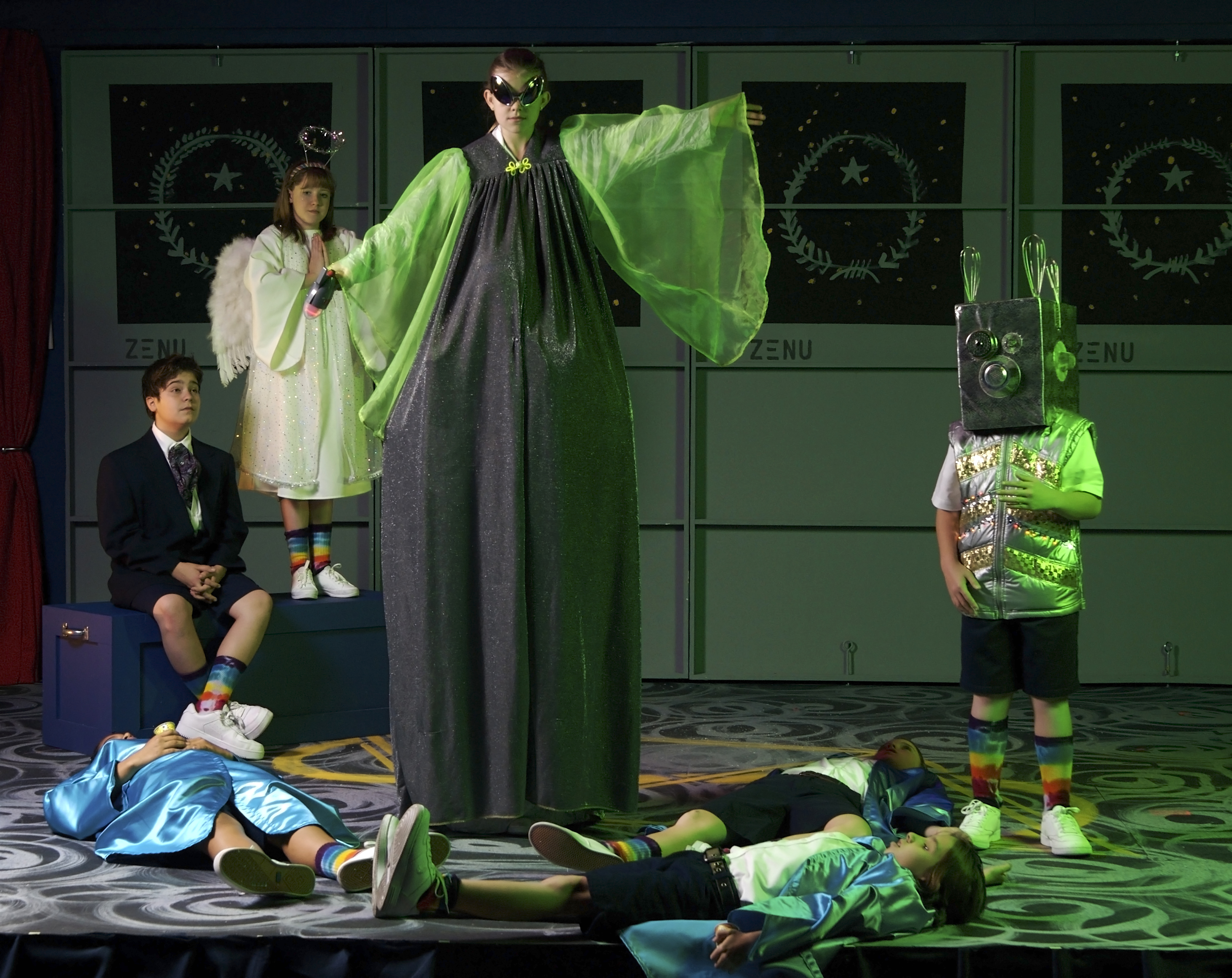 Stray Cat Theatre's "Very Merry Unauthorized Children's Scientology Pageant." Tempe, AZ.